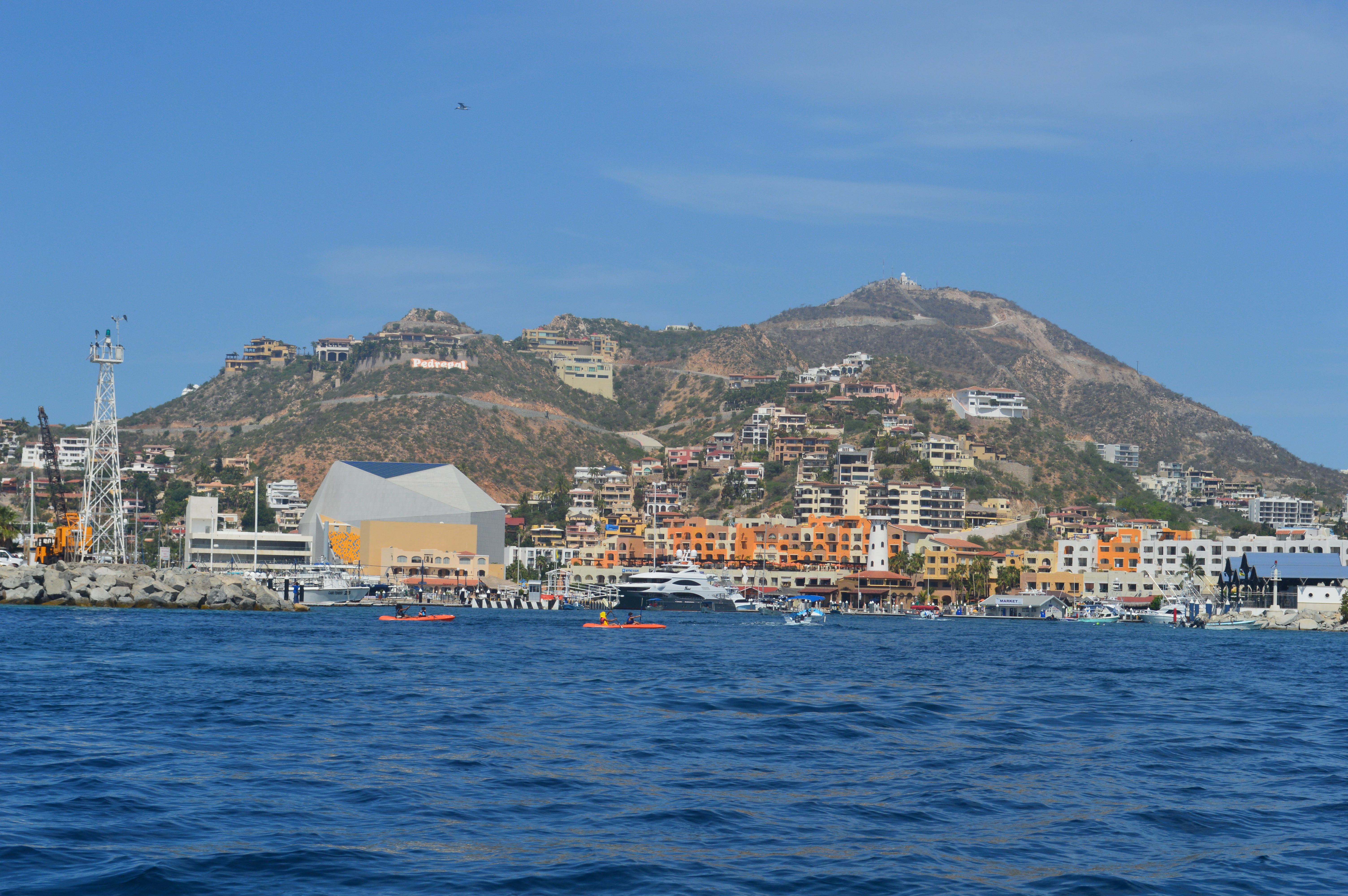 View of the port of Cabo San Lucas from the water, Baja California Sur